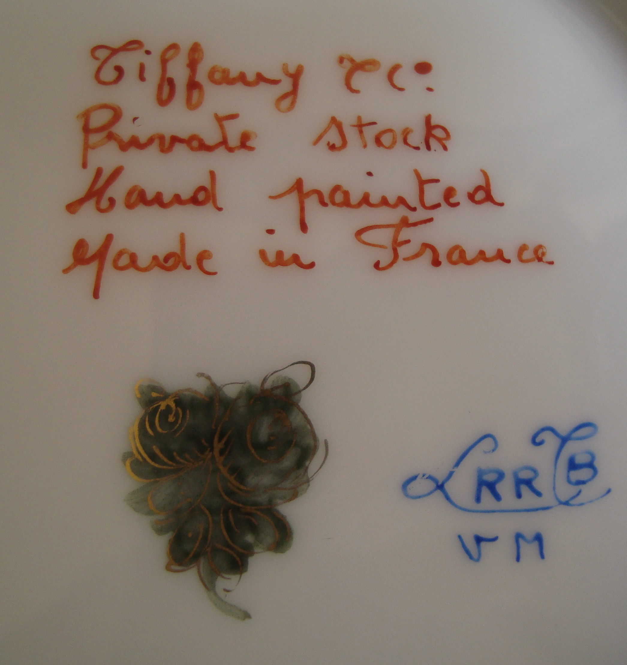 Marks of porcelains by Camille Le Tallec for Tiffany and Co.